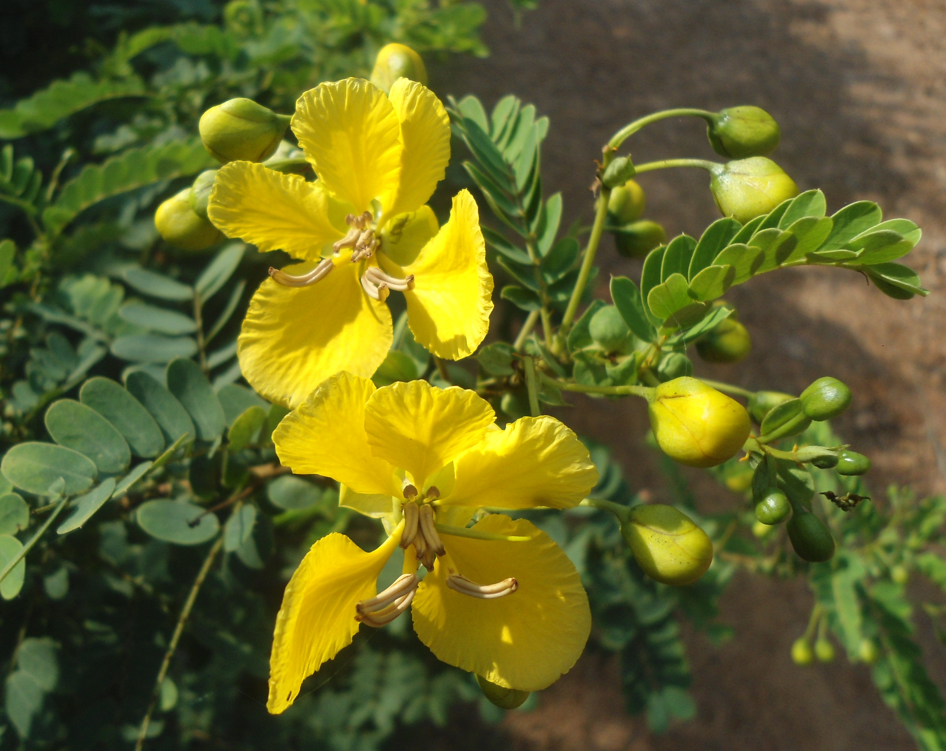 (Senna auriculata) at kambalakonda wildlife Sanctuary, Visakhapatnam